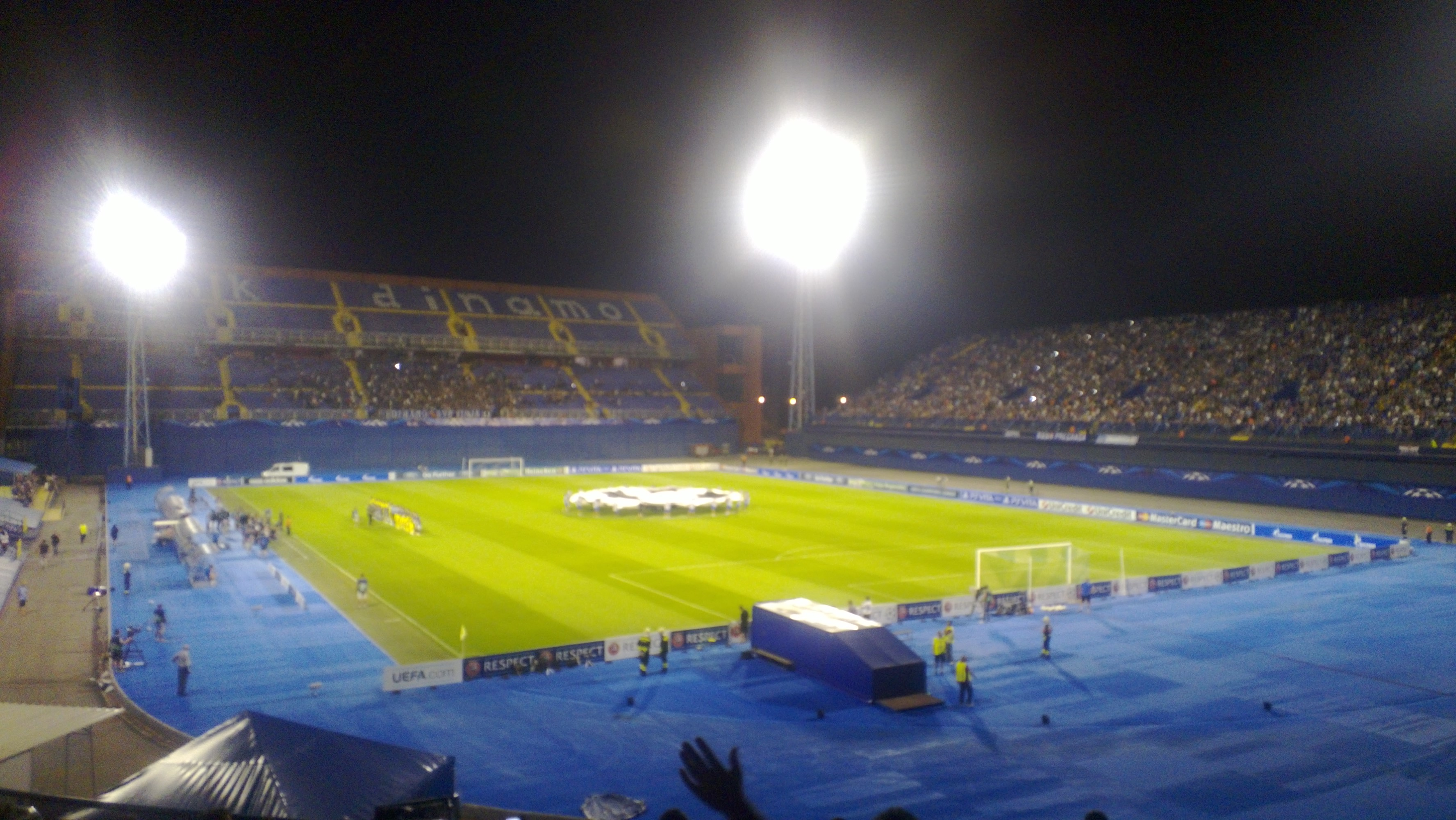 Moments before the opening kickoff of the 2012-13 UEFA Champions League play-off match between Dinamo Zagreb and Maribor.